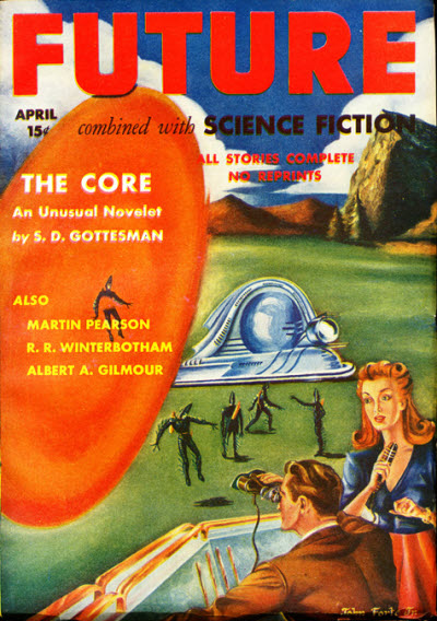 April 1942 cover of the Future combined with Science Fiction magazine, volume 2, issue 4.